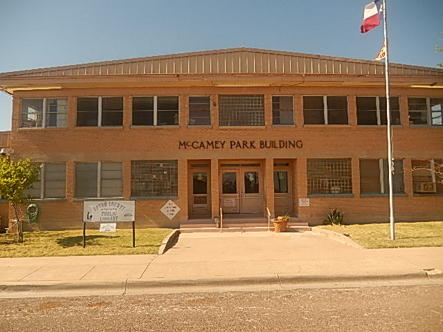 I took photo with Nikon camera of McCamey Park Bldg. in McCamey, TX.